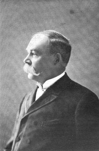 Photo of James E. Boyd, governor of Nebraska (1890s)